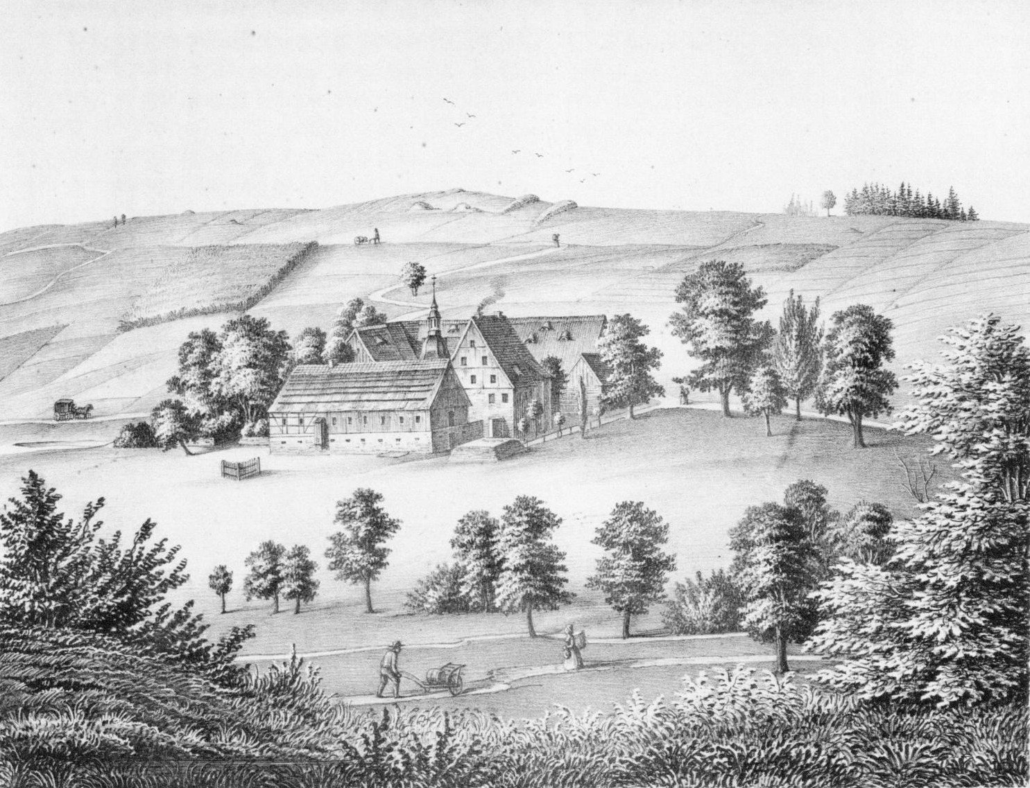 manor Voigtsdorf in the Erzgebirge